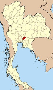 Map of Thailand highlighting Nakhon Nayok province